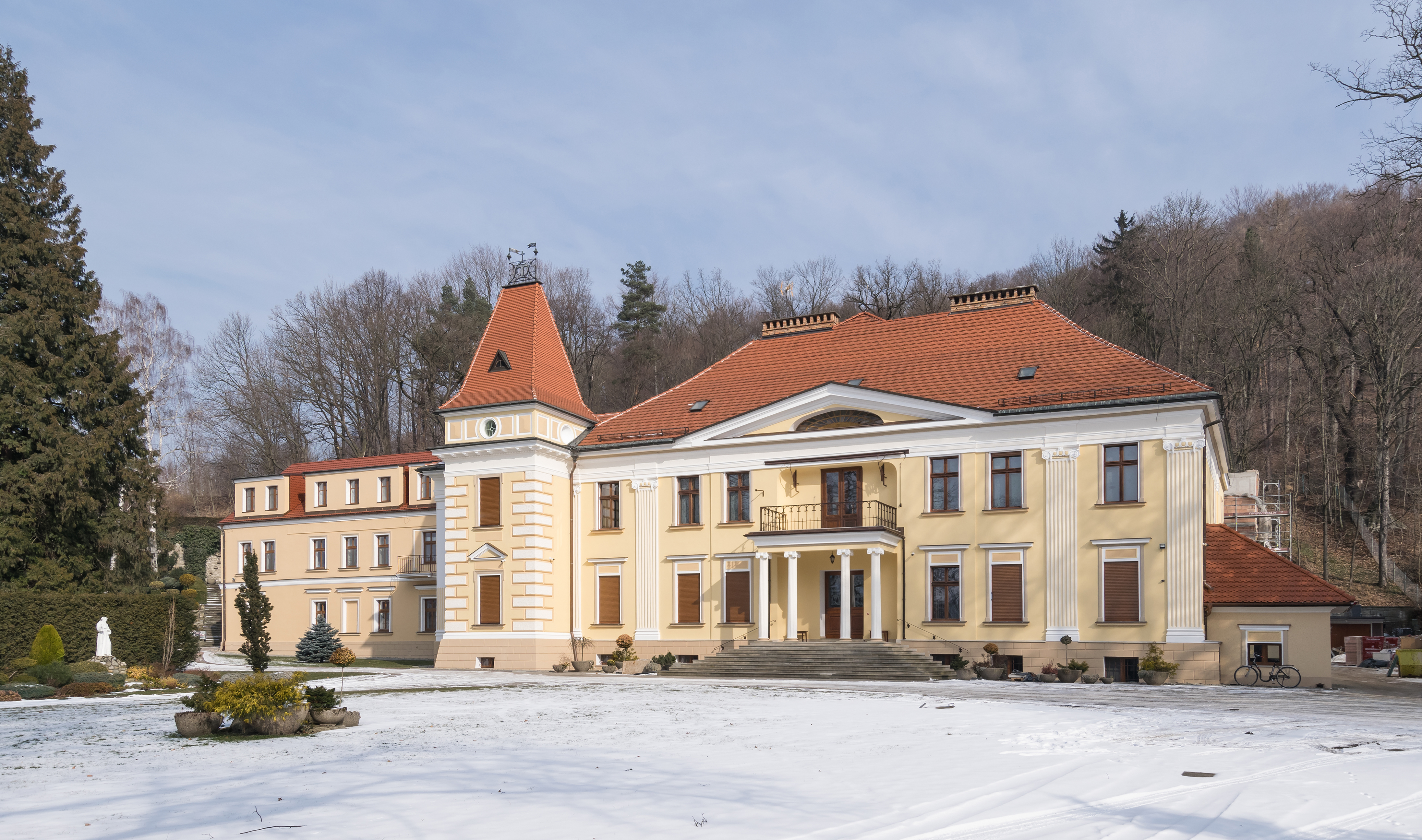 Oppersdorfe's palace in Ołdrzychowice Kłodzkie Ta fotografia przedstawia zabytek wpisany do rejestru zabytków pod numerem ID 592582